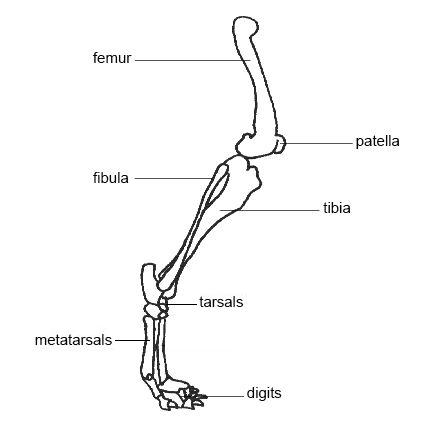 Diagram of dog hindlimb, corrected labelling of previous version, original drawing by J. R. Lawson, Otago Polytechnic, Dunedin, New Zealand, 2007.